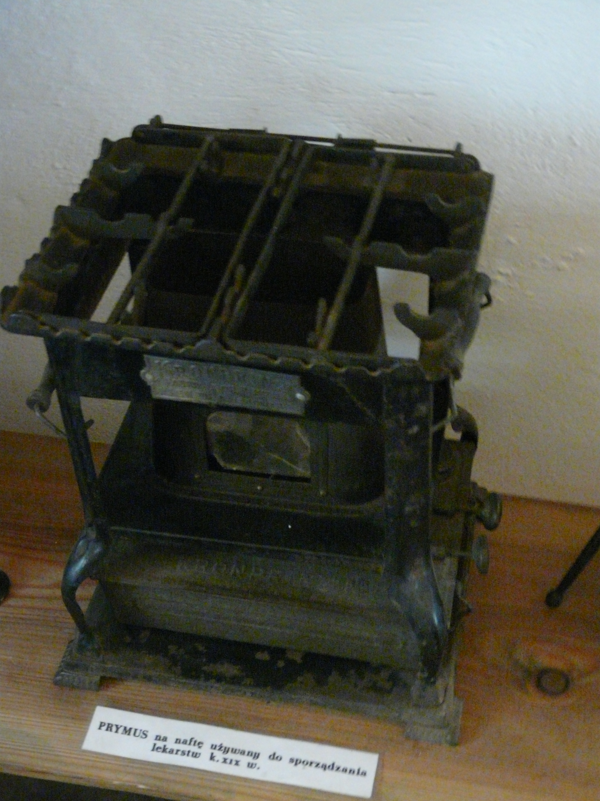 A kerosene-burning Primus stove.